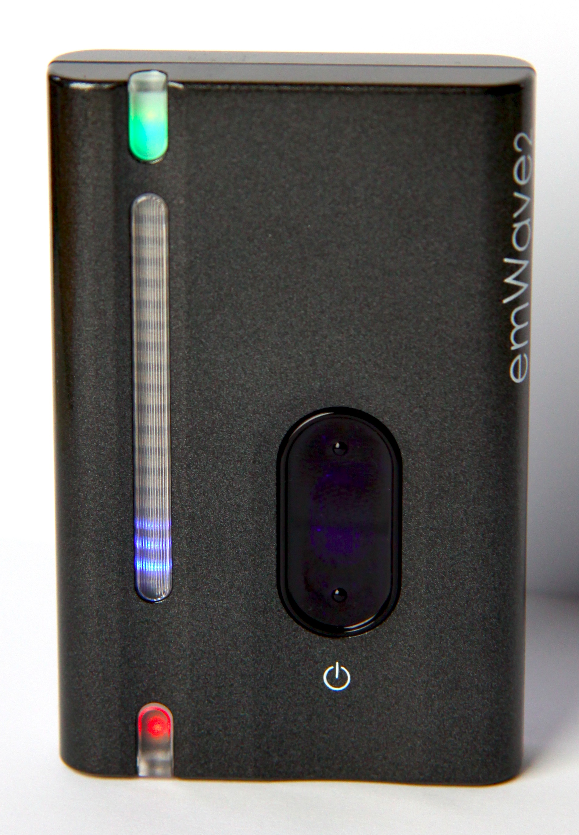 An EmWave2 that is powering up and doing its self test